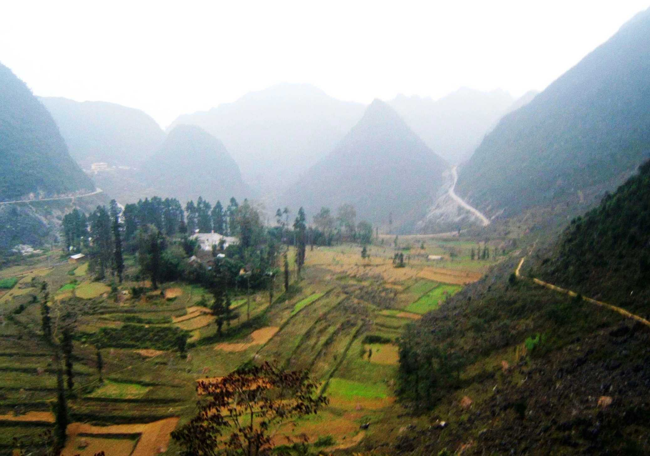 Residence of Hmong Lord Vương on the Turtle Hill in Sà Phìn commune, Đồng Văn district, Hà Giang province. The National Route 4C is on the left of the imageTiếng Việt: Dinh thự họ Vương trên đồi Con Rùa xã Sà Phìn huyện Đồng Văn tỉnh Hà Giang.